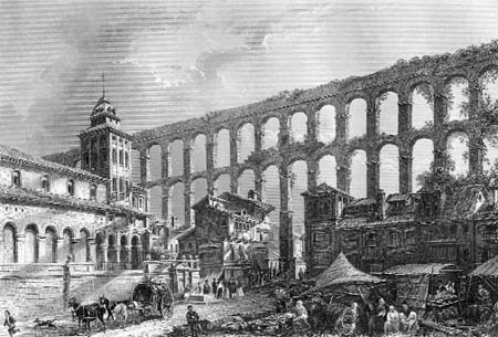 Church of Santa Columba in Segovia (Spain)